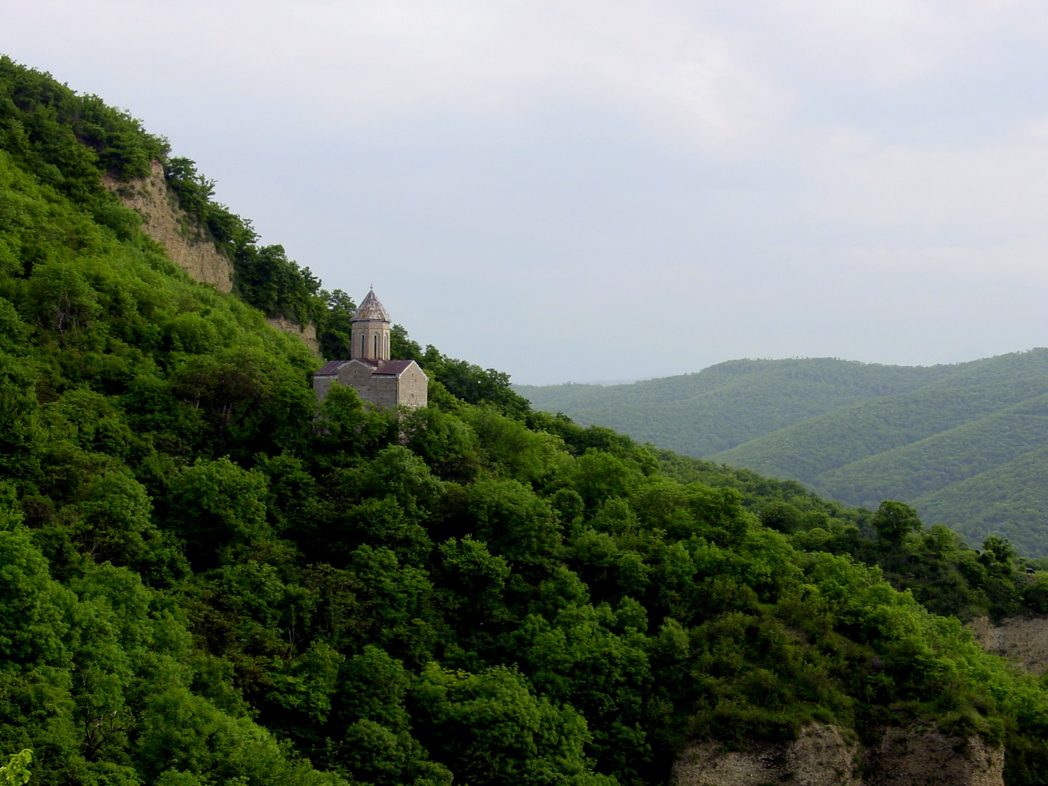 Bodorna Church of St. Mary overlooking the Aragvi river. The church was restored in 1914 by the people of the Aragvi valley. It is very hard to imagine how the church was built as it took quite an effort to drive in a small sedan to the church. The church is usually closed. It is open on religious holidays.